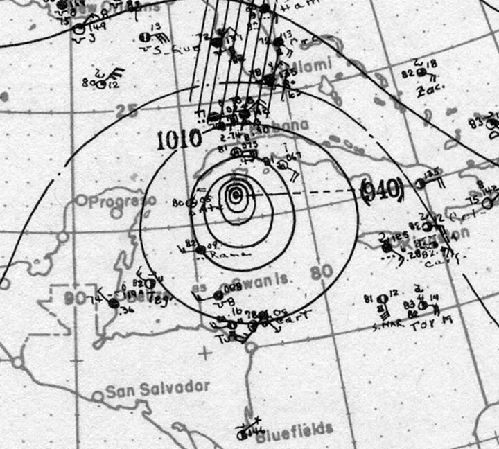 Hurricane Four, also known as the Nueva Gerona hurricane, at its peak intensity south of Cuba.